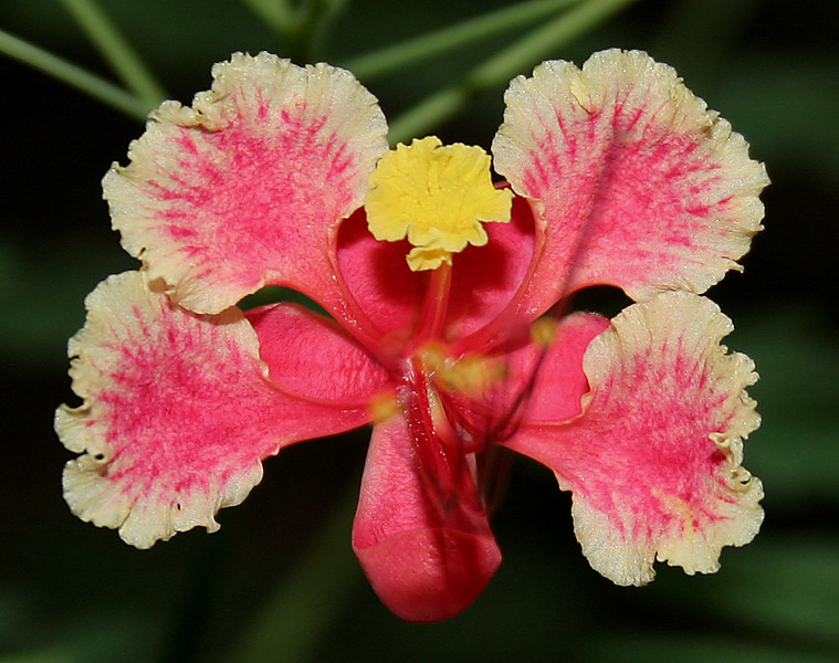 Caesalpinia pulcherrima - Poinciana, Red Bird of Paradise, Mexican Bird of Paradise, Peacock Flower, Pride of Barbados, Dwarf poinciana Assamese: krishnachura • Bengali: krishnachura • Hindi: कृष्ण चरण krishna-charan, कृष्ण चूरा krishna-chura • Kannada: ಚಣ್ಣಕೇಶವ ಗಿಡ channakeshava gida, ರತ್ನಗಮ್ಧಿ ratnagamdhi • Konkani: रत्नगंधी ratnagandhi • Manipuri: krishanchura • Marathi: मोरशेंडा morshenda, राजतुरा rajtura, संकासुर sankasur, शंकासूर shankasur, शंखासुर shankhasur • Mizo: krishanchura • Oriya: tarra • Sanskrit: कृष्णचूडा krishnachuda, रत्नगन्धि ratnagandhi • Tamil: மயிற்கொன்றை mayir-konrai • Urdu: gul-e-turra - in Hyderabad, India.